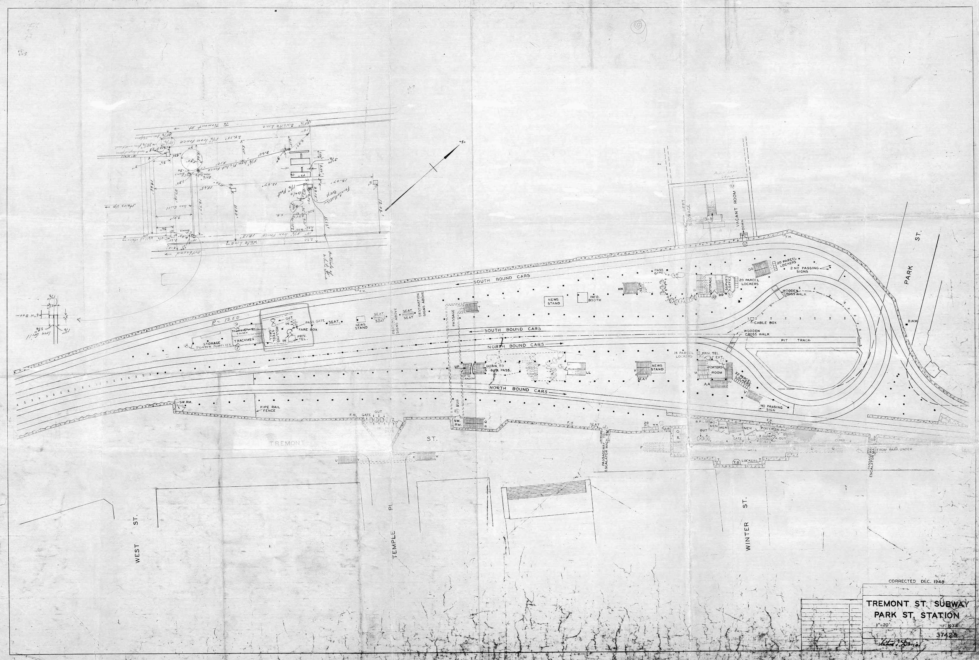 1934 plan of Park Street station, updated to December 1948